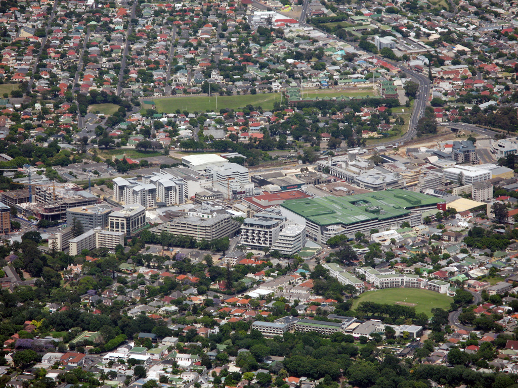 View of the Claremont CBD from Table Mountain.